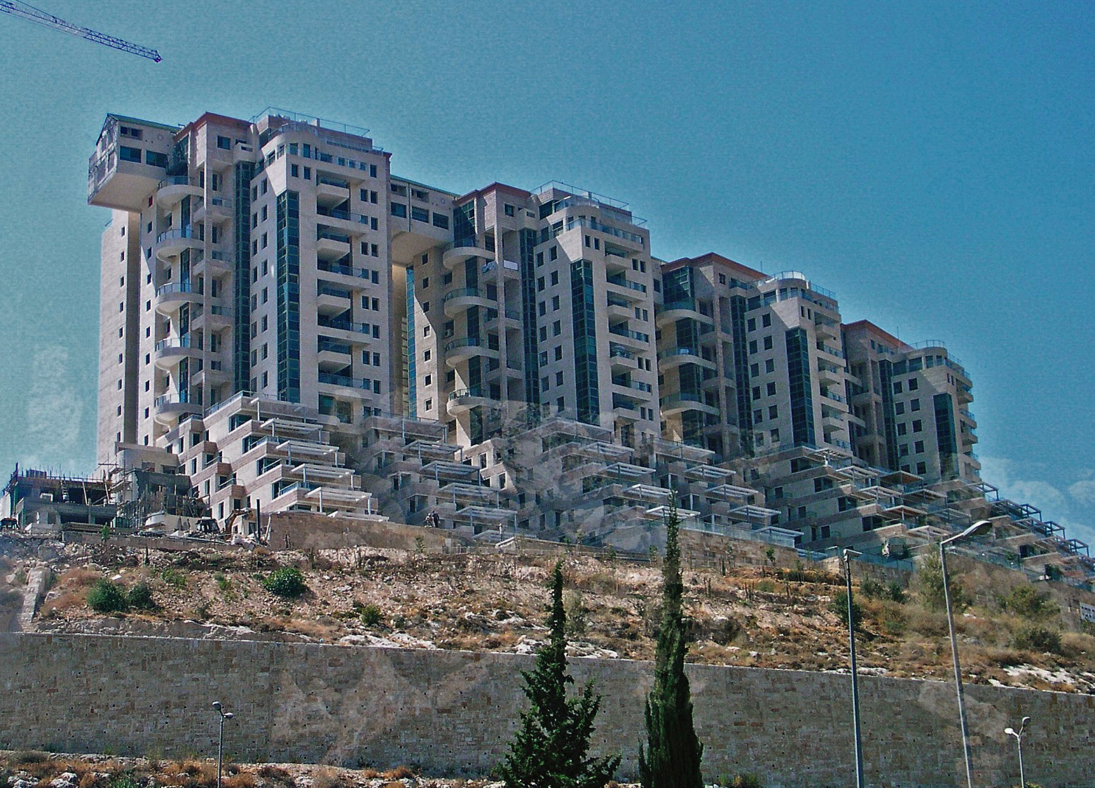 Jerusalem - Ramat Sharett - the pharaonic buildings of "Holyland Tower" This place is in West Jerusalem, to the west of the green line, and it has nothing to do with Israeli settlements or palestinian refugee camps.